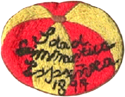 Historical badge of Societat Gimnàstica Espanyola. Digitally enhanced and with alpha channel.